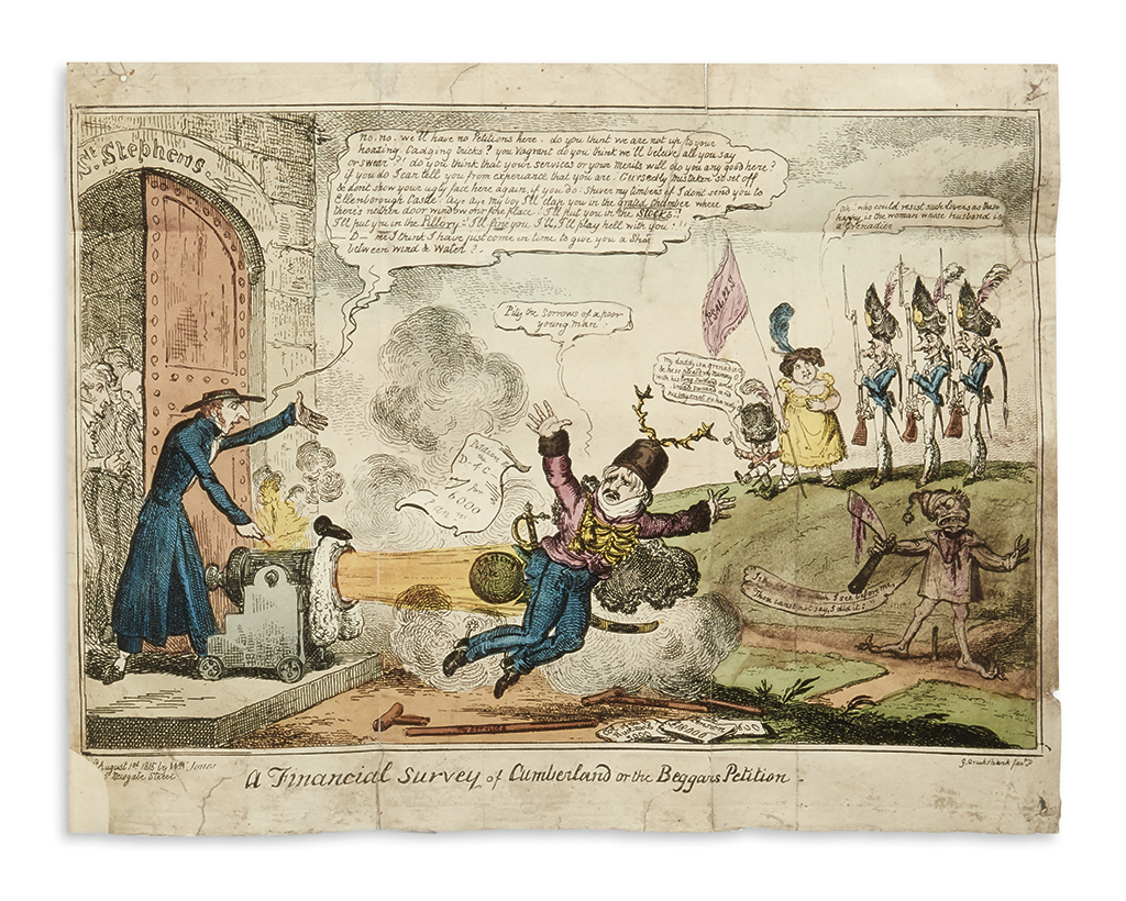 "A Financial Survey of Cumberland" cartoon by George Cruikshank (1792-1878)